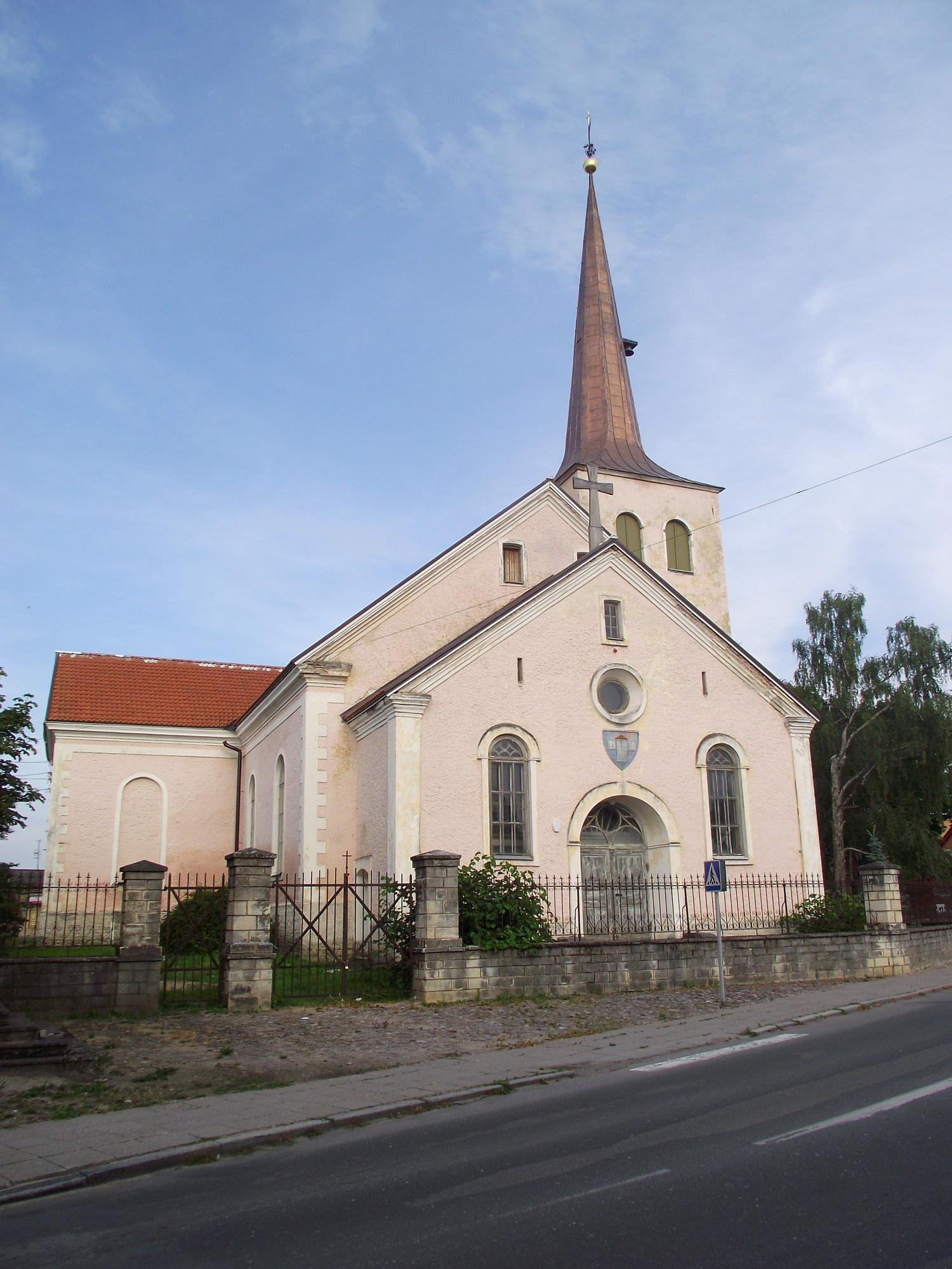 Paide Church.